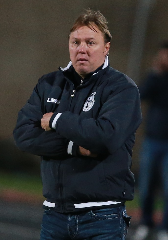 Igor Kolyvanov coaching FC Torpedo Moscow in a game against FC Ararat Moscow.